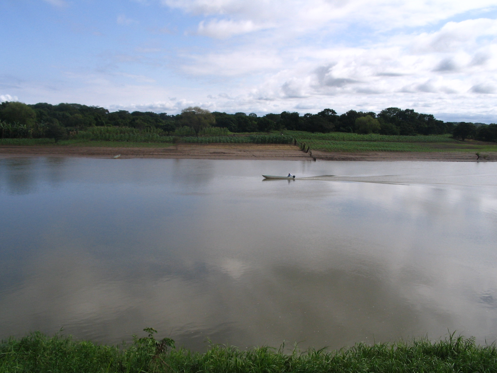 Usumacinta River at Balancán, Tabasco, México